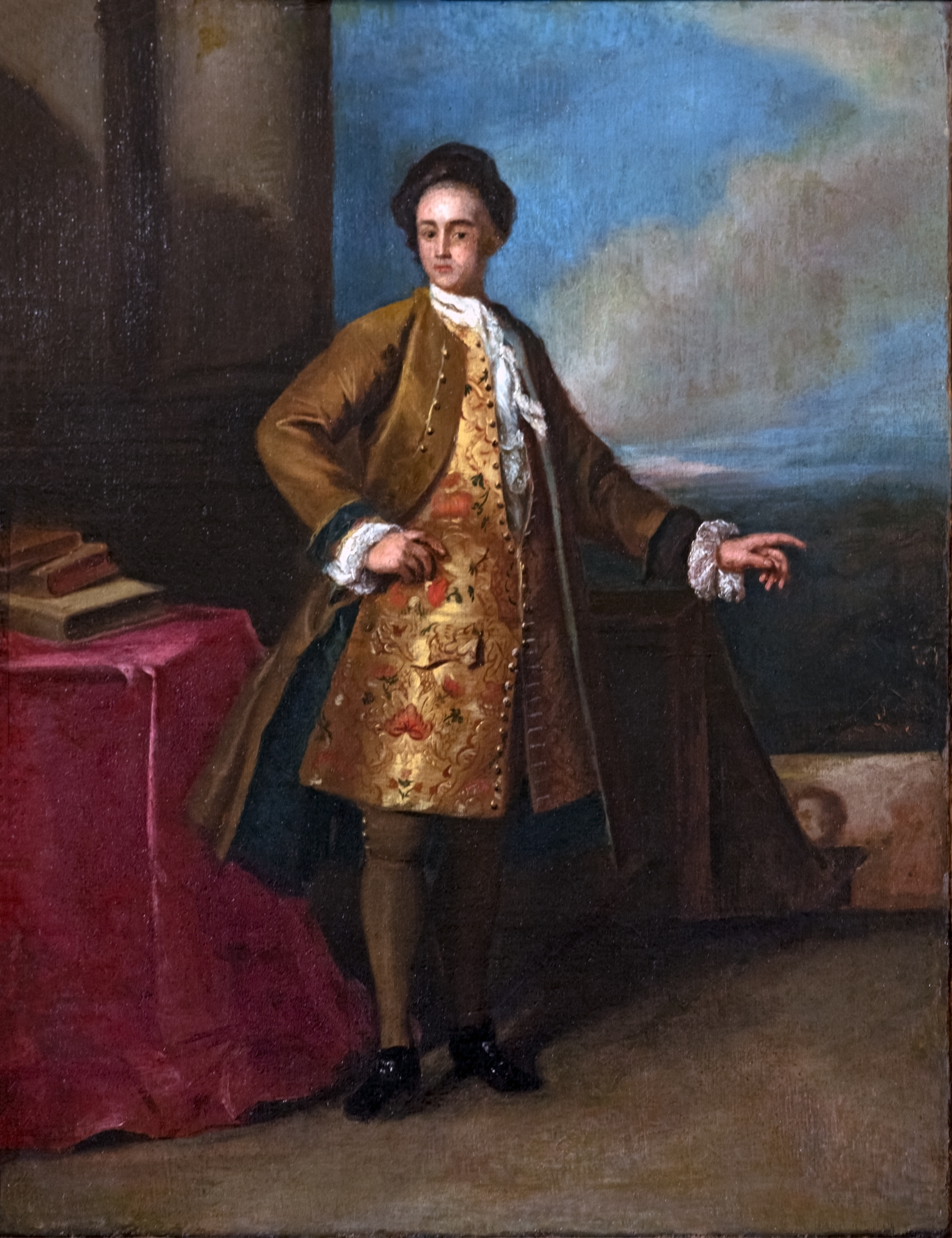 Depicted person: Samuel Egerton – Member of the Parliament of Great Britain